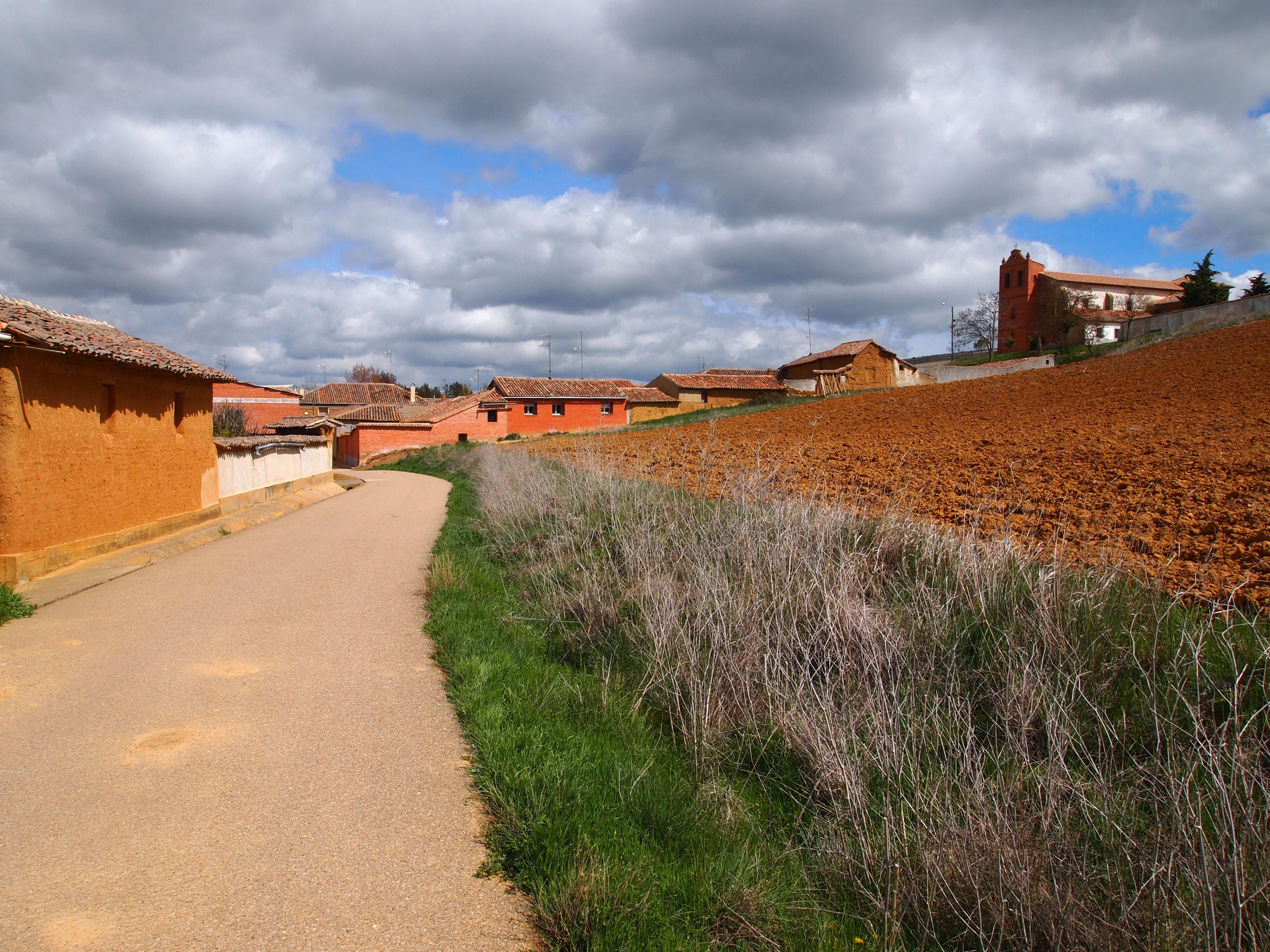 Arriving to Ledigos, Palencia